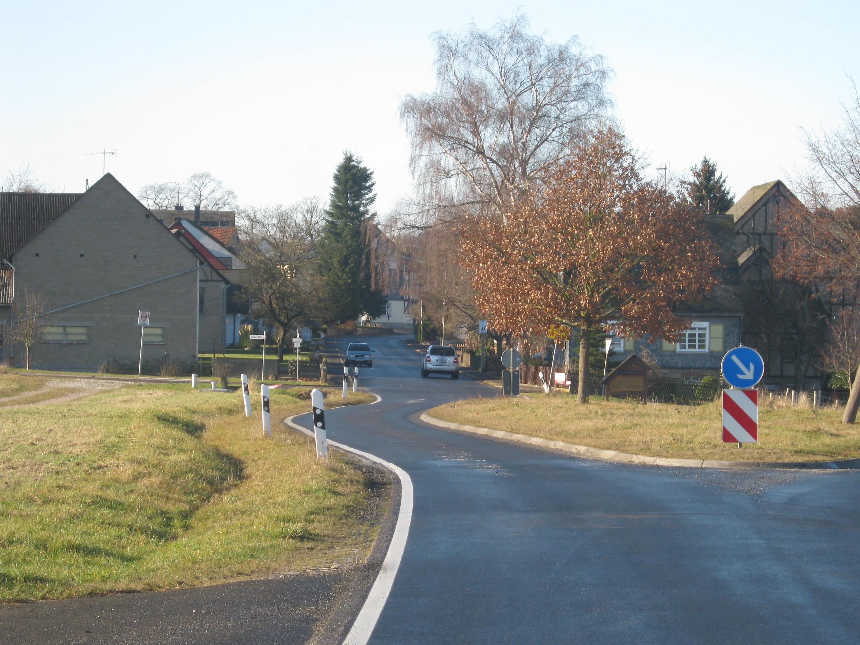 Horbruch in the Hunsrück landscape, Germany